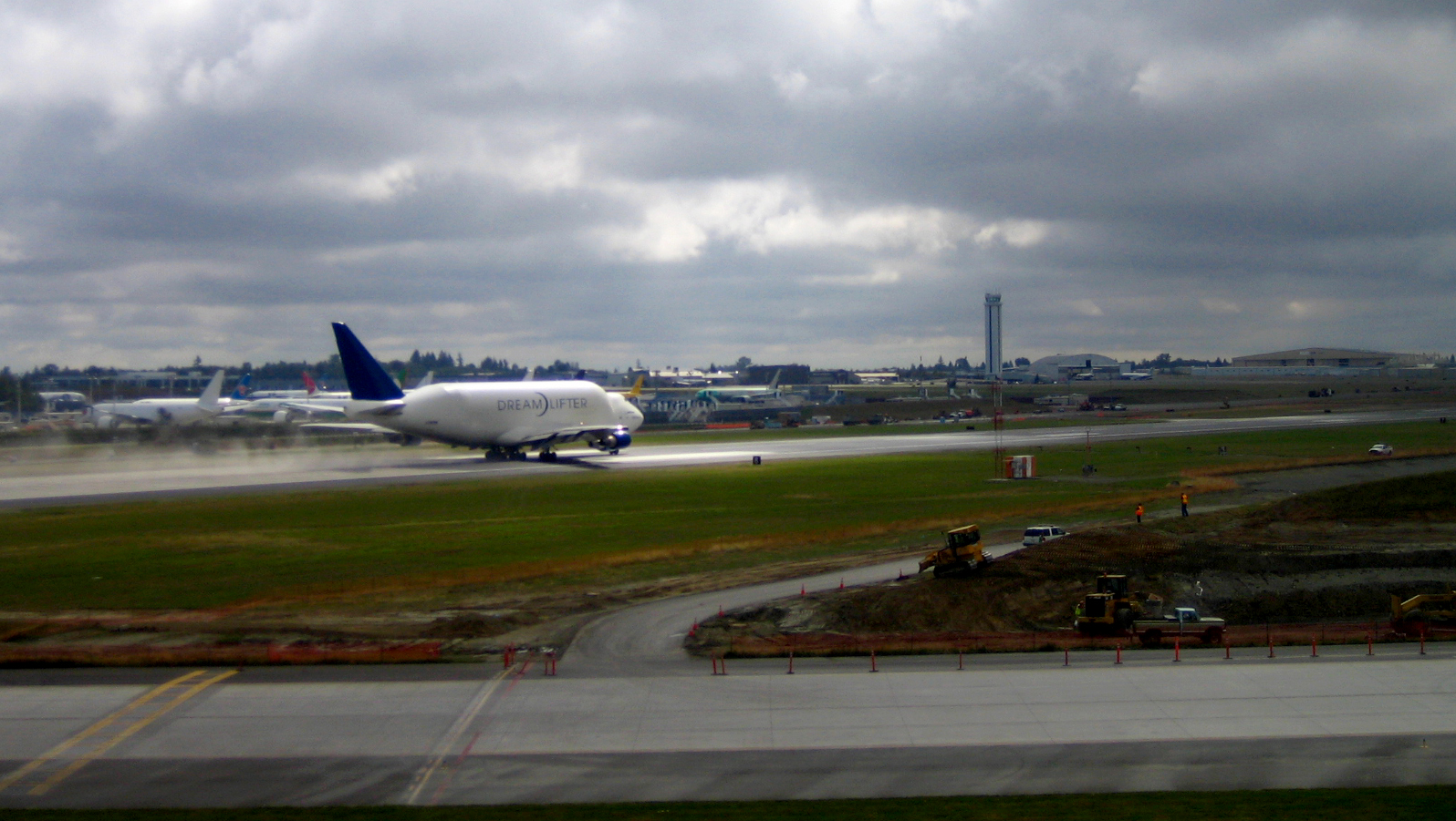 Boeing 747 LCF (Dreamlifter) taking off at Paine Field, view from the Future of Flight Aviation Center & Boeing Tour in Everett, Washington, USA.